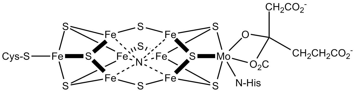 Fe-Mo-S-Cluster as cofactor for the enzymatic reduction of nitrogen to ammonia.